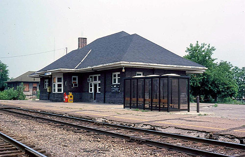 The former Grand Trunk Western depot in Pontiac, situated east of the tracks on the northwest corner of West Huron Street and Woodward Avenue, in 1978. It was then being used by SEMTA Silver Streak commuter trains.